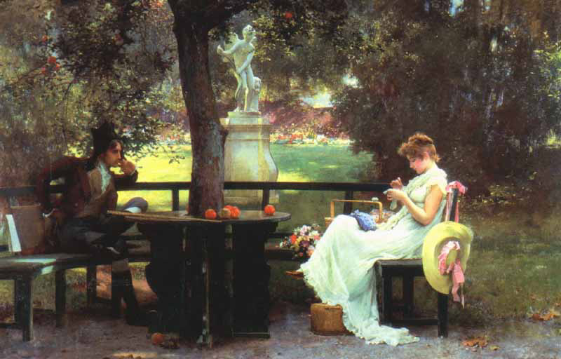 In Love2.